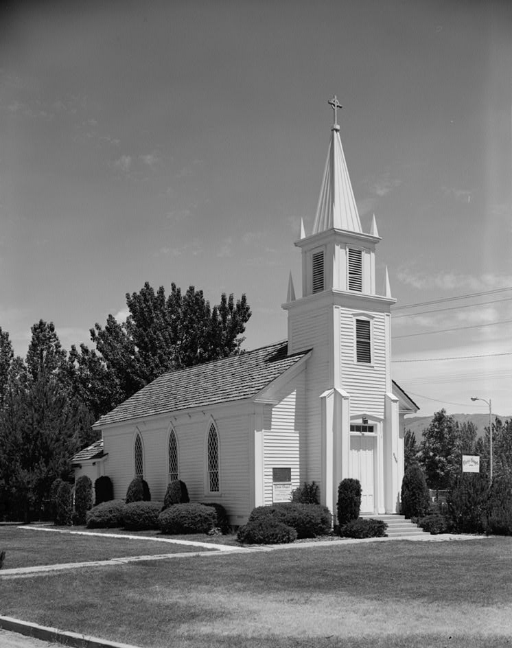 Southwestern corner of Christ Chapel, located at the intersection of Broadway and Campus Drive on the campus of Boise State University in Boise, Idaho, United States. Built in 1866, the chapel is listed on the National Register of Historic Places.